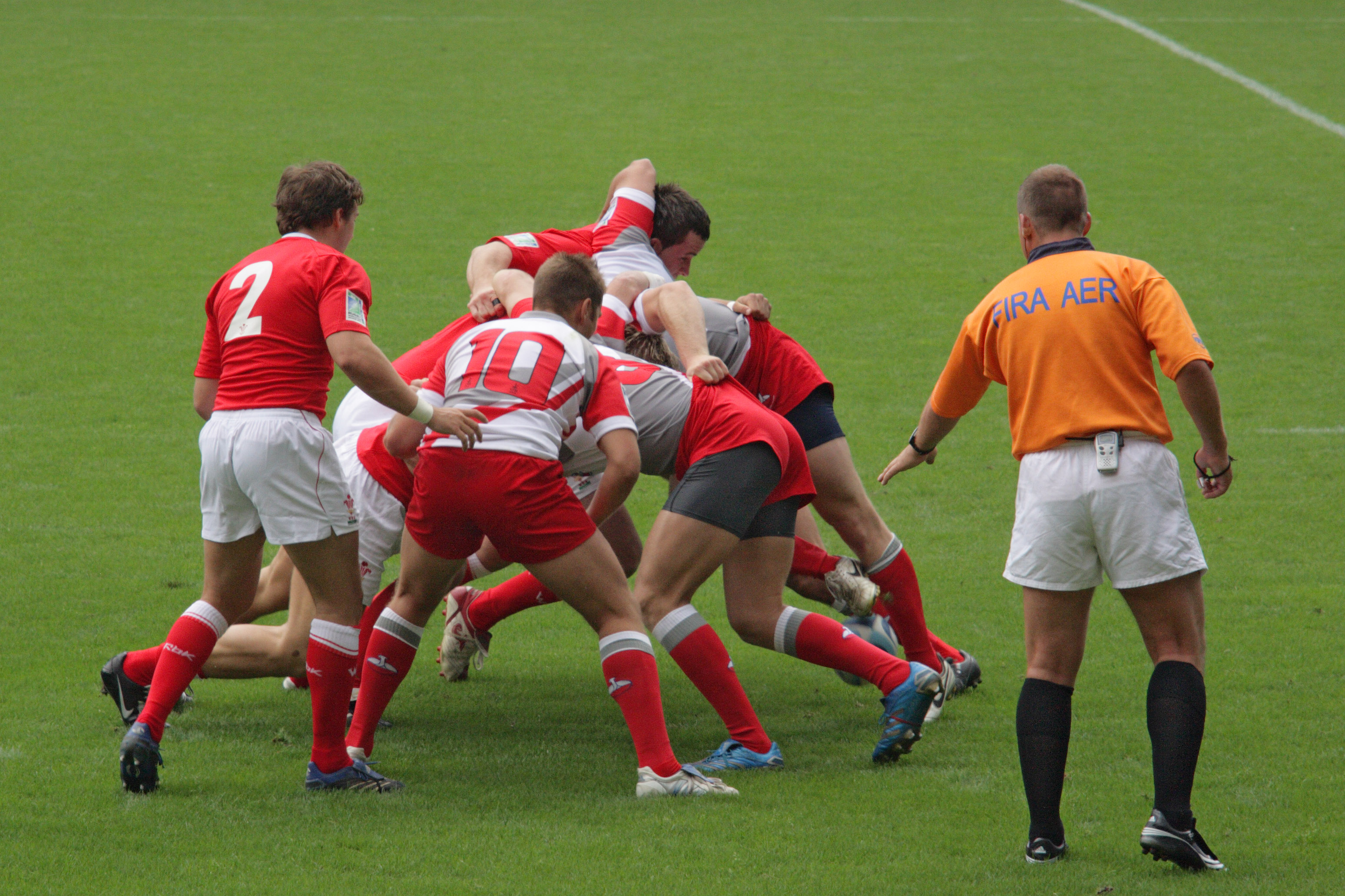 European Sevens 2008 (Hannover Sevens) tournament in Hannover, Germany. Third game in group B: Wales vs Poland. A scrum. Final score of the game was 38:7 for Wales.